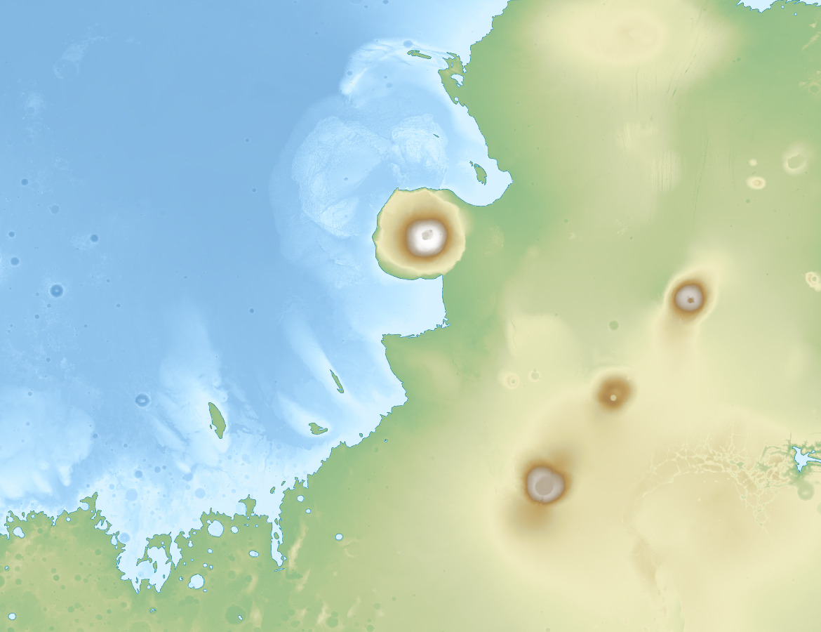 Map of Olympus Mons and Tharsis Montes region, on Mars planet, if oceans existed. Sea level is the level 0 of reference.